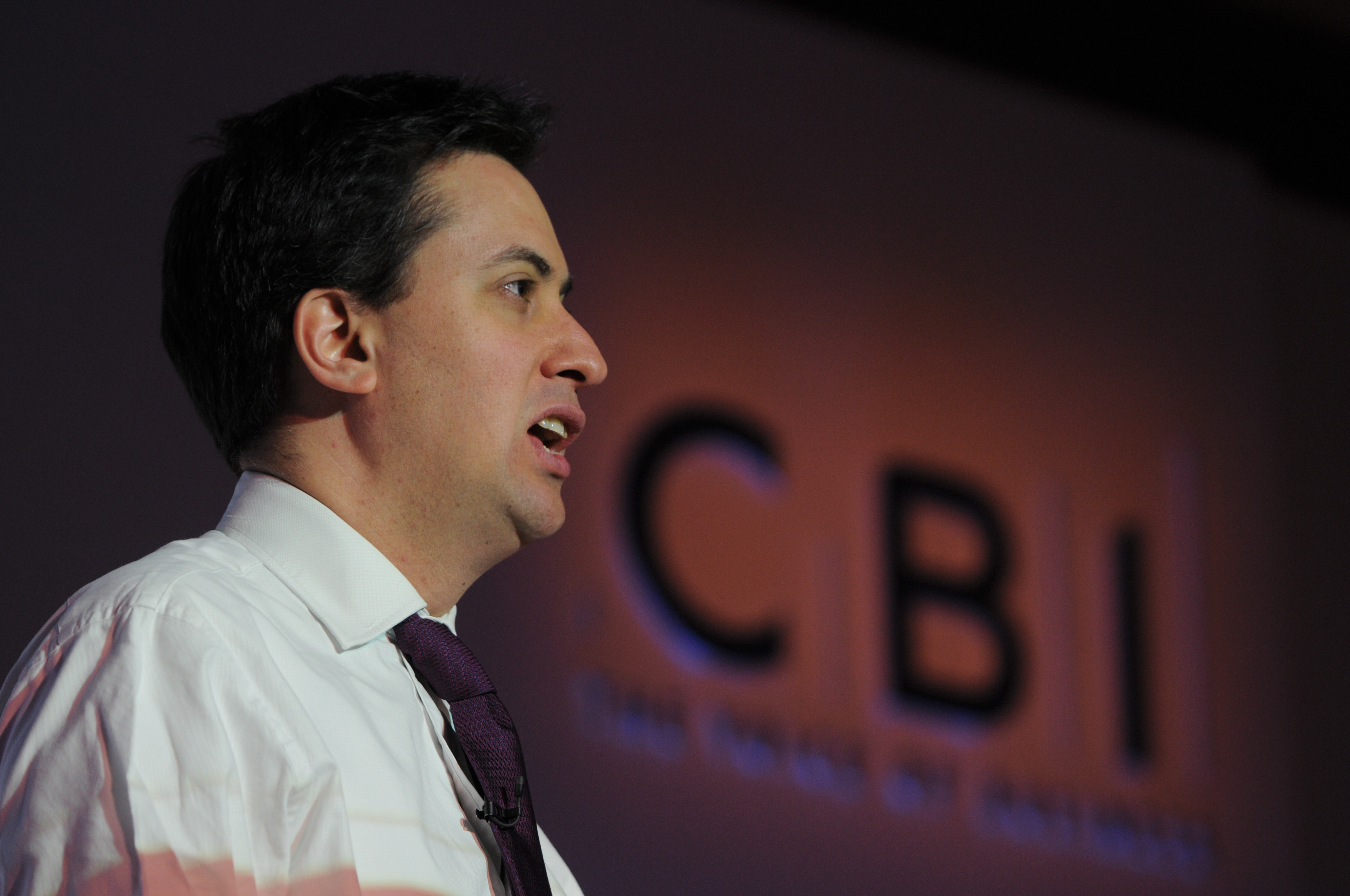 Ed Miliband, British politician and Secretary of State for Energy and Climate Change, speaking at the Confederation of British Industry's Climate Change Summit 2008 at The Royal Lancaster Hotel, London.